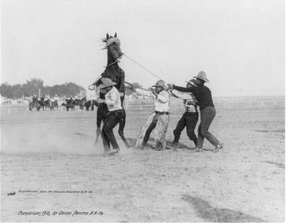 Vintage images of Cowboys and Cowgirls and their lifestyles.